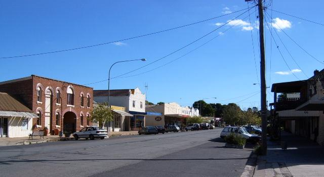 Gunning, New South Wales main street I took this picture. (November 2004; early summer, mid-afternoon; looking south-west) Peter Ellis 00:34, 20 Mar 2005 (UTC)